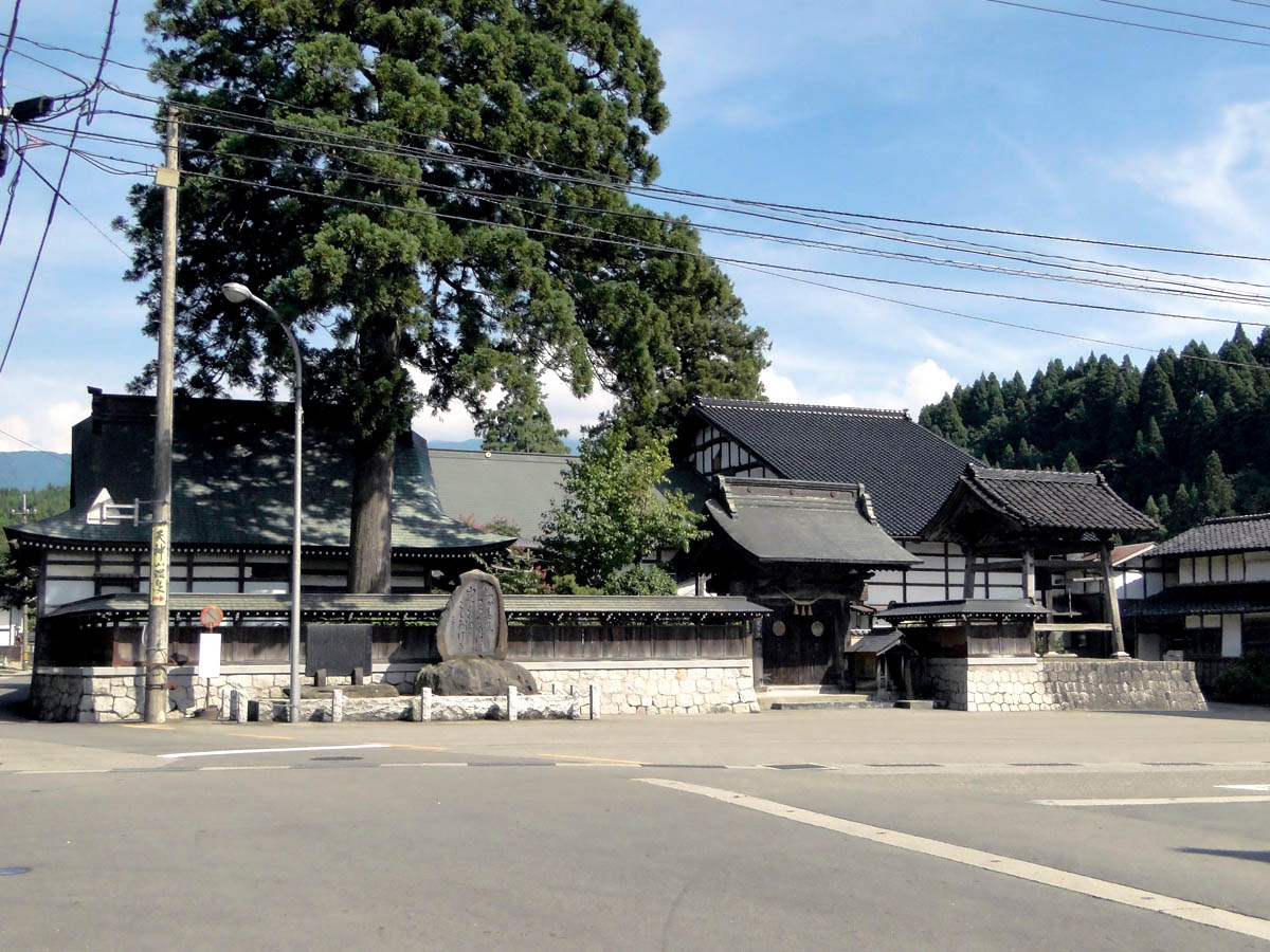 Ogawasan Senkouji Kougakubo